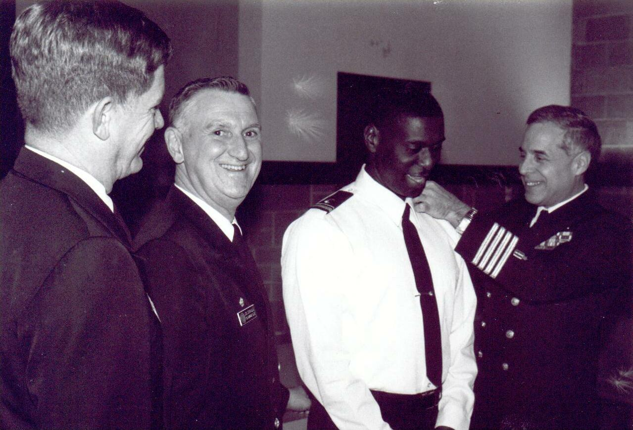 Imam M. Noel Jr. (identified as such in newspaper article from which photo is taken, later formally identified as Monje Malak Abd al-Muta Noel Jr, or Monje Malak Abd al-Muta'Ali, Jr.) is "frocked" by U.S. Navy Chaplain Arnold E. Resnicoff in a ceremony held at the U.S. Naval Submarine Base New London where Noel, then a "chaplain-candidate," was receiving training by Chaplain Resnicoff for future service in the Chaplain Corps, and also participating in the base's Command Religious Program, including special lectures on Islam to military personnel of all religions. "Frocking" is a Navy ceremony where an individual who has been nominated for promotion but has not yet been officially promoted is sometimes allowed to wear the insignia for that rank (although not receiving the pay or benefits accorded for it). Here, Chaplain Resnicoff attaches the shoulder boards of a Lieutenant (junior grade) to Noel's uniform, while (left to right) Rear Admiral Richard A. Buchanan (Commander, Submarine Group TWO) and Captain Leo G. Dominque (Commanding Officer of the submarine base) look on. The Imam was commissioned as a chaplain (as opposed to chaplain candidate) on August 8, 1996.